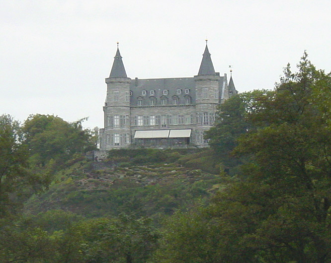 Ciergnon royal castle. Photograph taken by David Edgar on 25th September 2005.